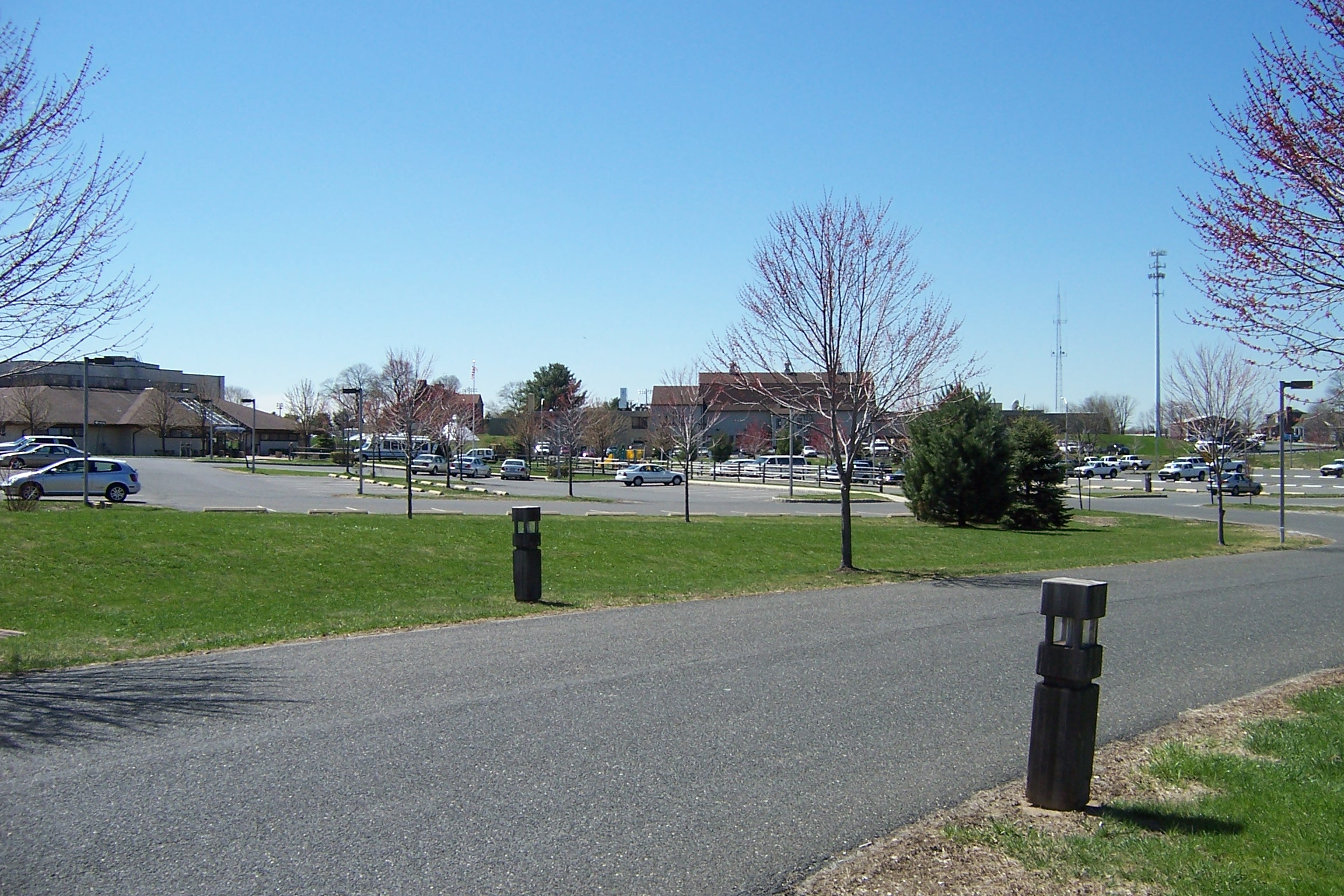 Marlboro Township, New Jersey, Municipal Complex.